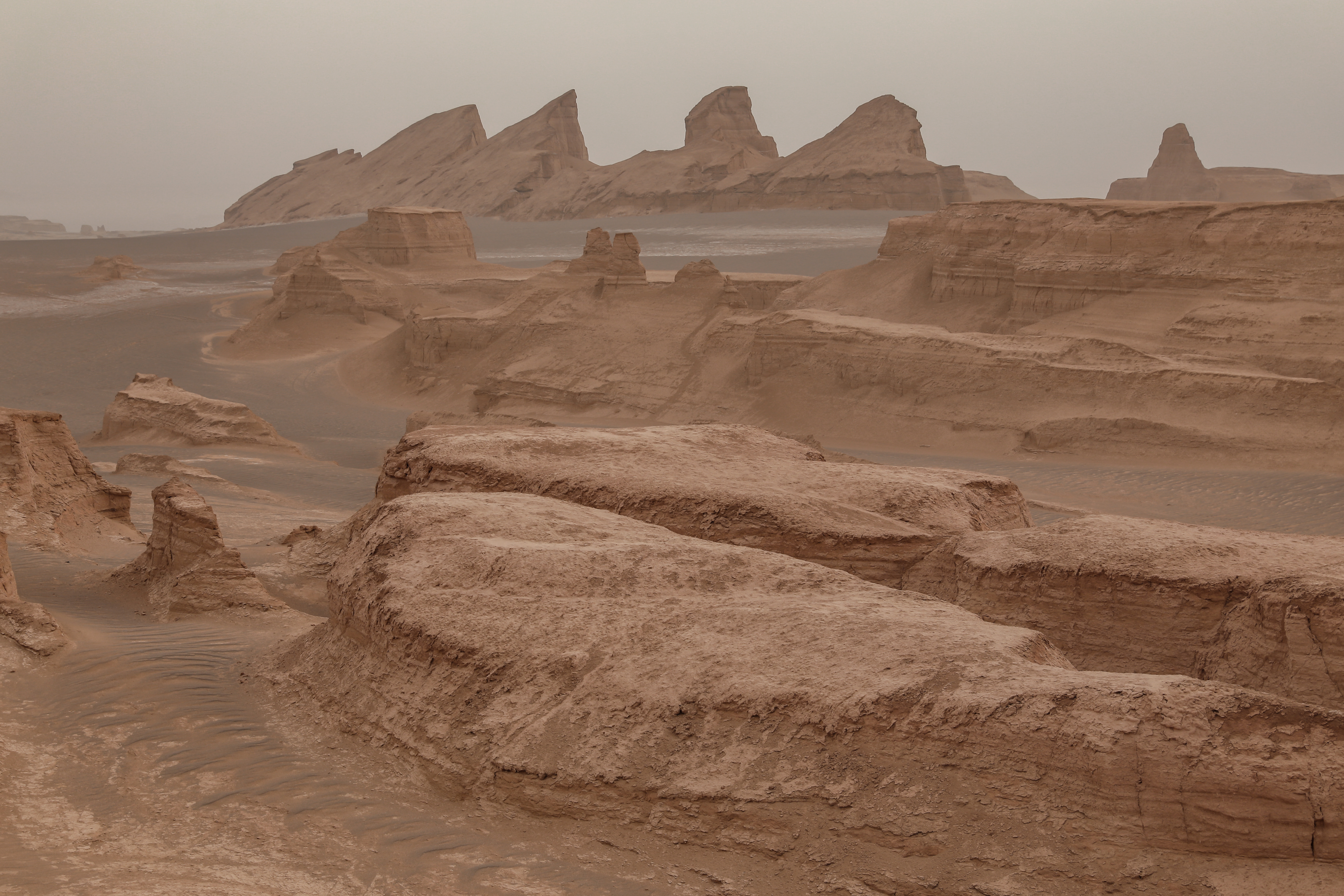 Dasht-e Lut Salt Desert in Kerman Province, Iran